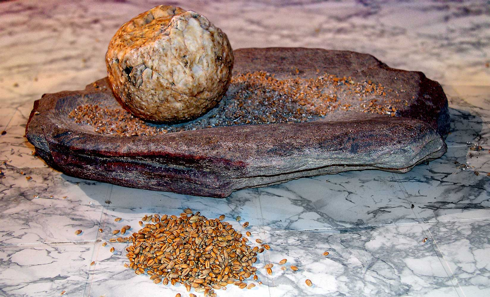 Ground stones from Neolithic to grind up grains by swaying